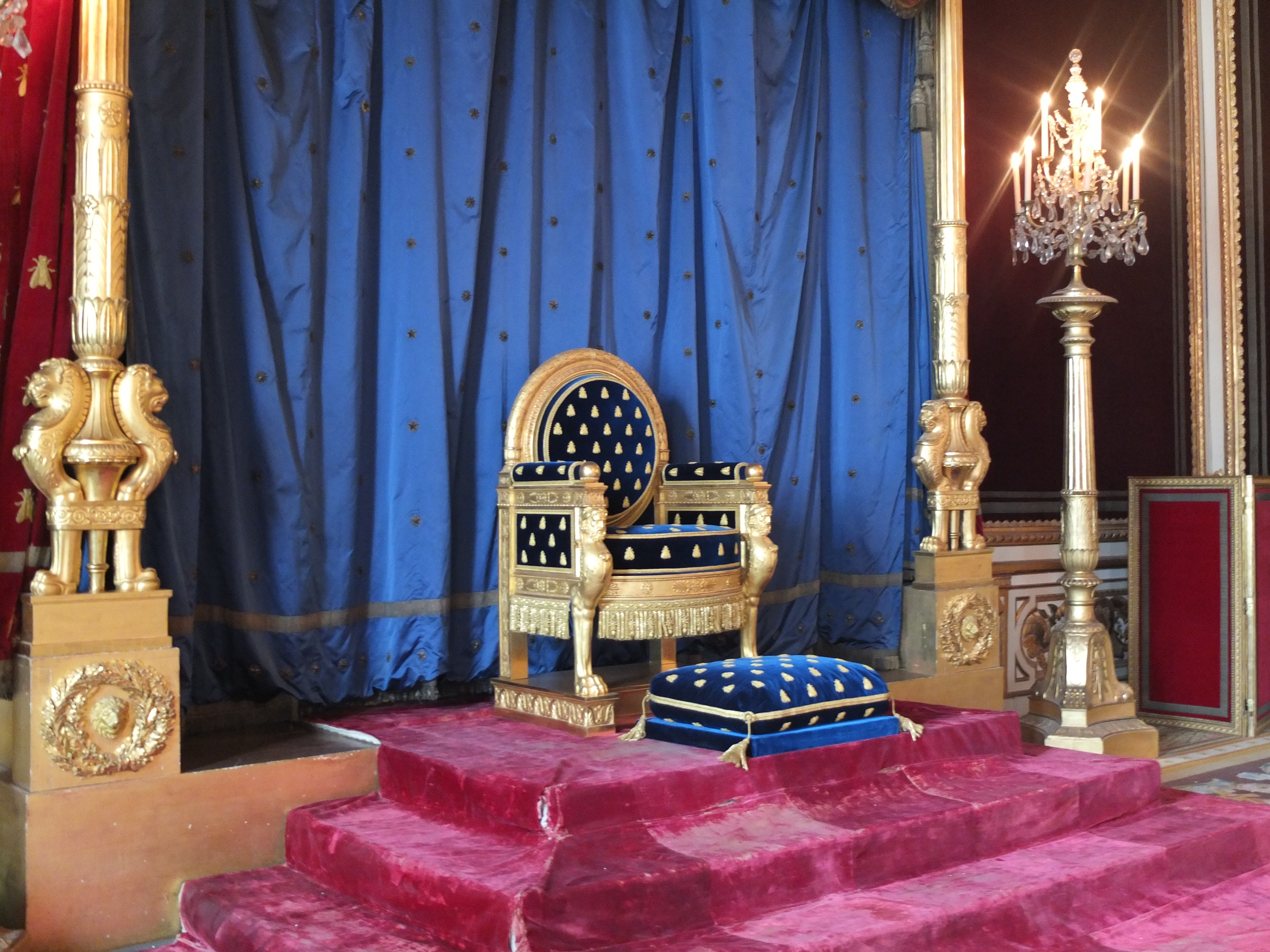 Throne of Napoleon I, 1808, situated in the throne room at the palace of Fontainebleau, France.